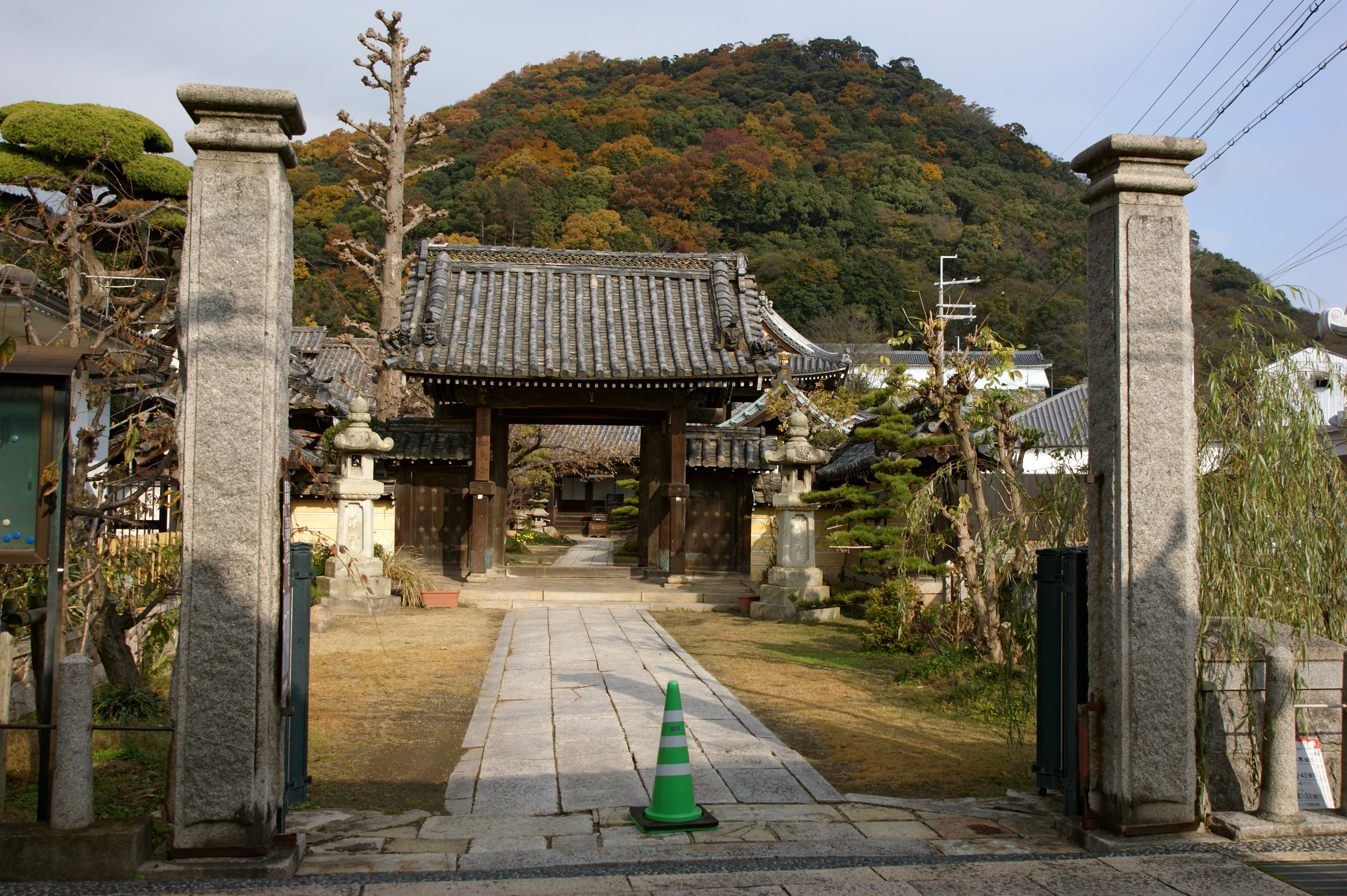 Nyoraiji, Tatsuno, Hyogo prefecture, Japan